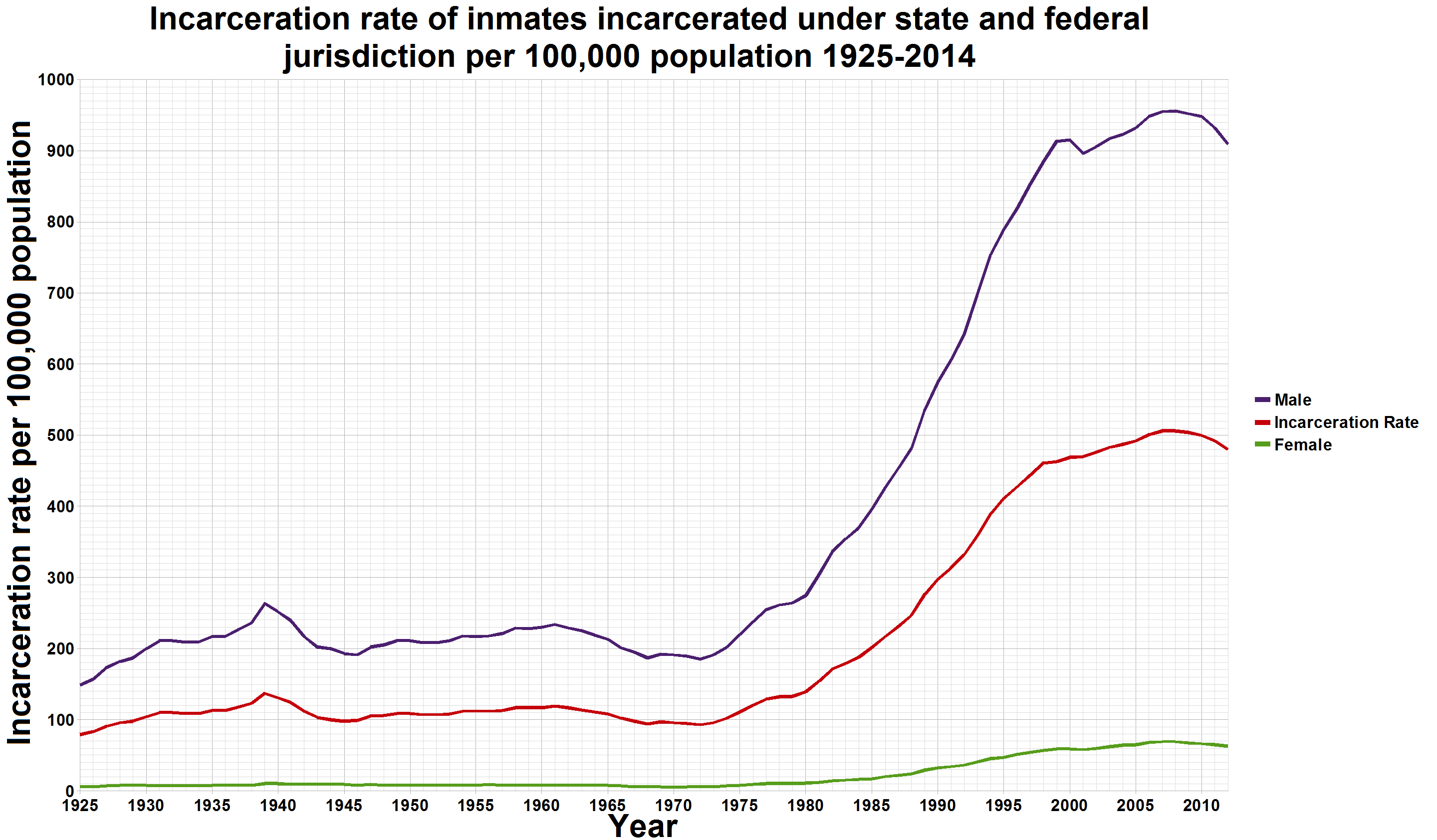 A graph made in excel 2007 showing the incarceration rate per 100,000 population in the United States. It shows the female and male rate, as well as their average. The graph depicts the incarceration rate of sentenced prisoners under jurisdiction of State and Federal correctional authorities from 1925 through 2014. It does not include jail inmates. 2003-2013 data from Bureau of Justice (Prisoners in 2013, p13t03.csv and p13t05.csv)